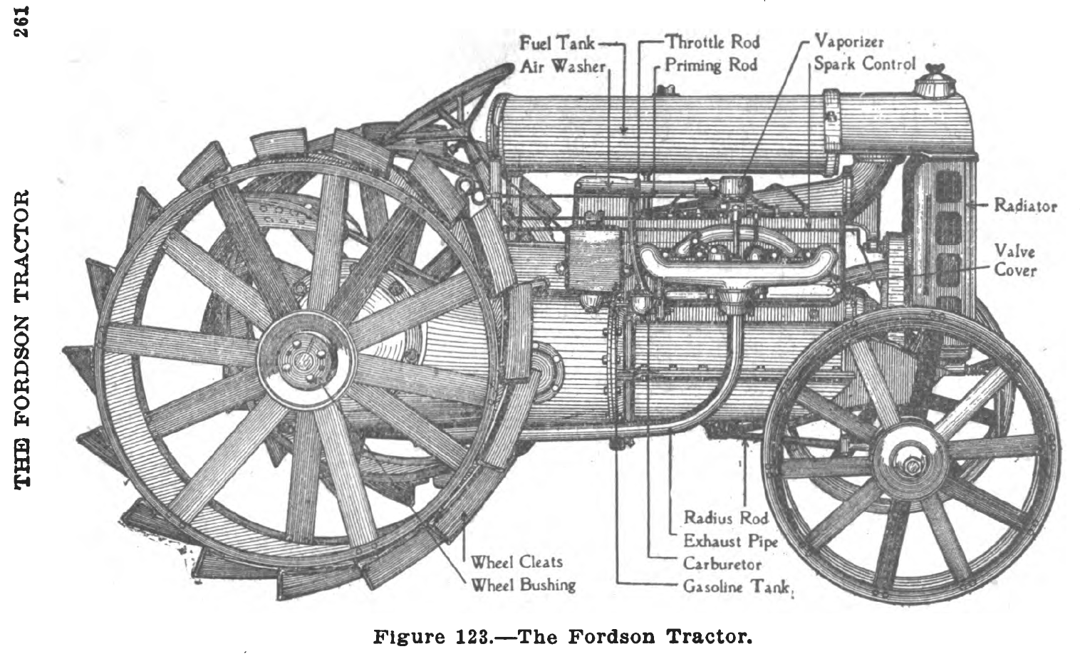 An overview of the original Fordson tractor, with principal parts labeled in English.